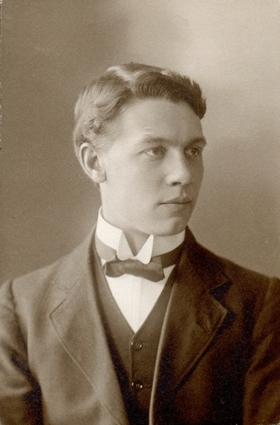 Vaino Kohtanen is a religious pioneer and past President of the Seventh-day Adventist Church in Finland.